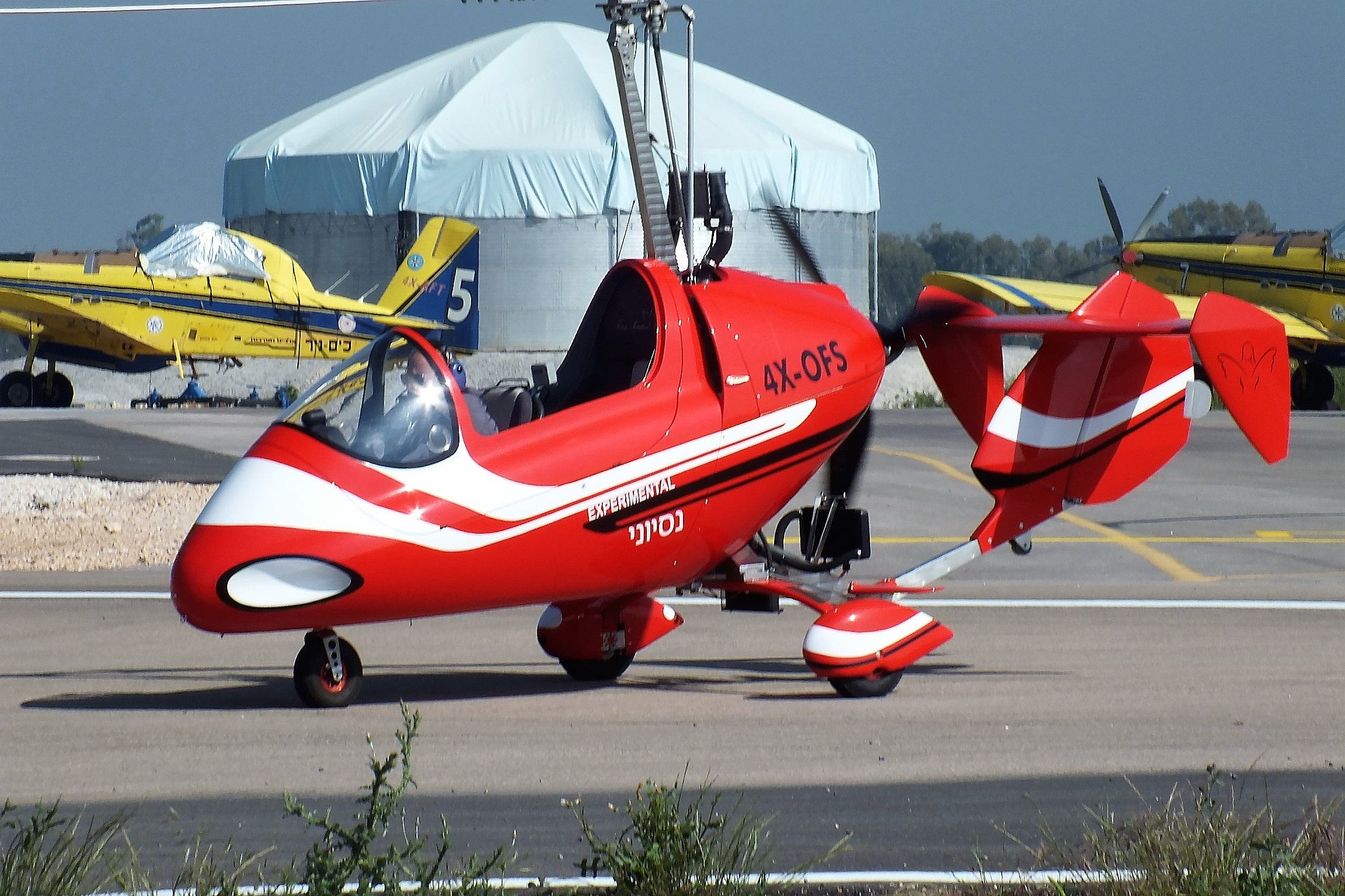 4X-OFS at Megido Airfield